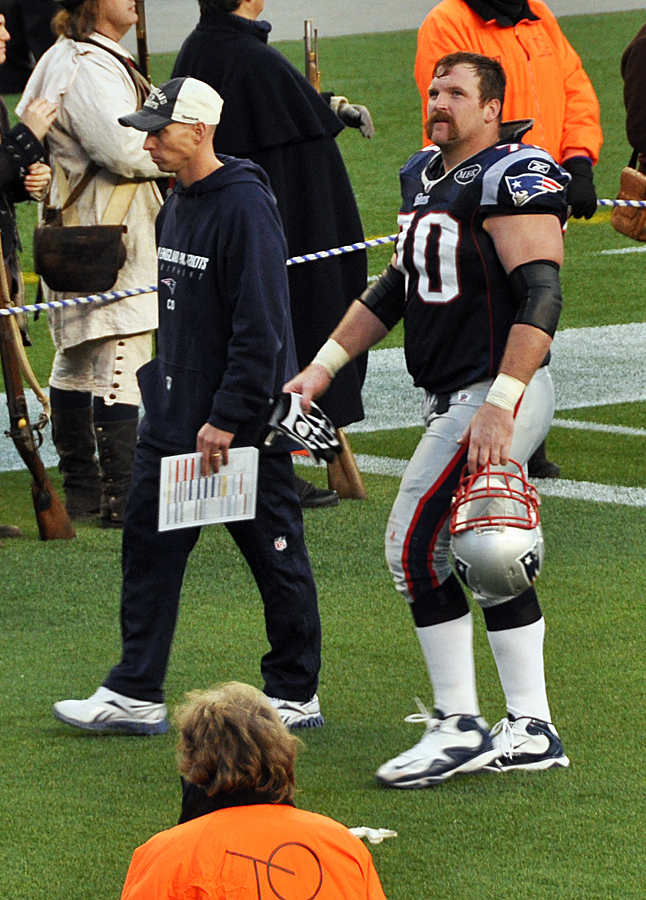 Logan Mankins, guard for New England Patriots.